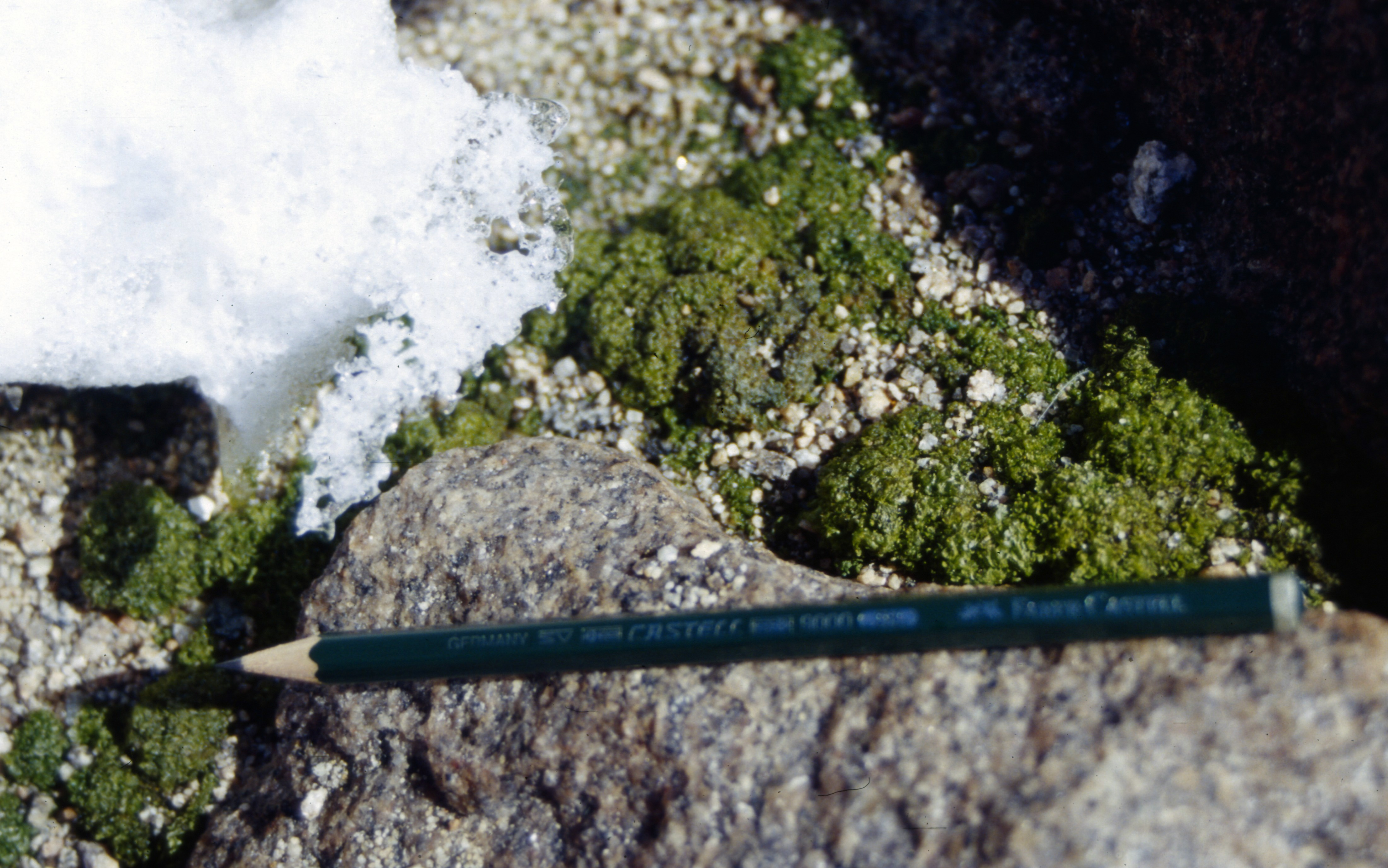 Prasiola crispa, a green algae, forming small cushions in protected niches on gravel. Central Dronning Maud Land, Antarctica.